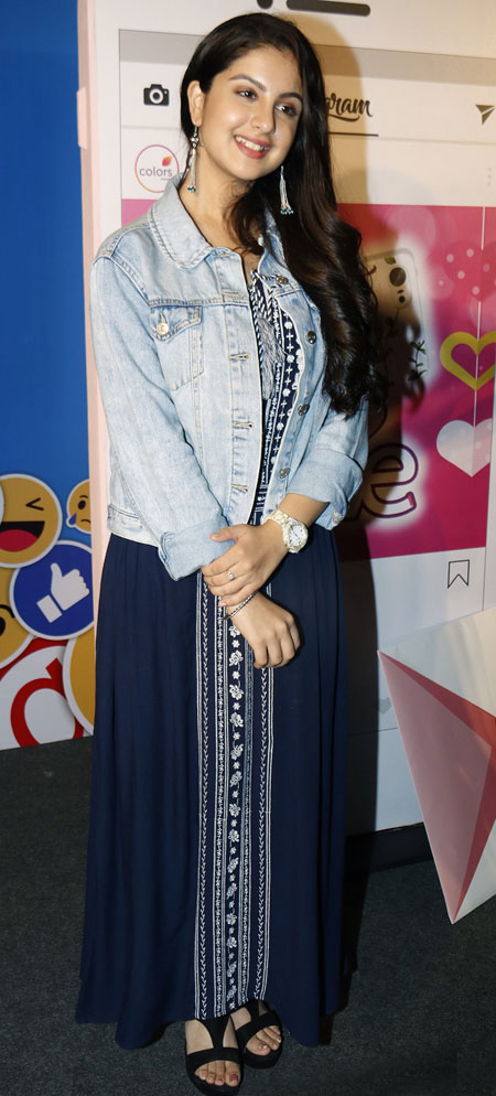 Tunisha Sharma at the launch of the show 'Internet Wala Love'